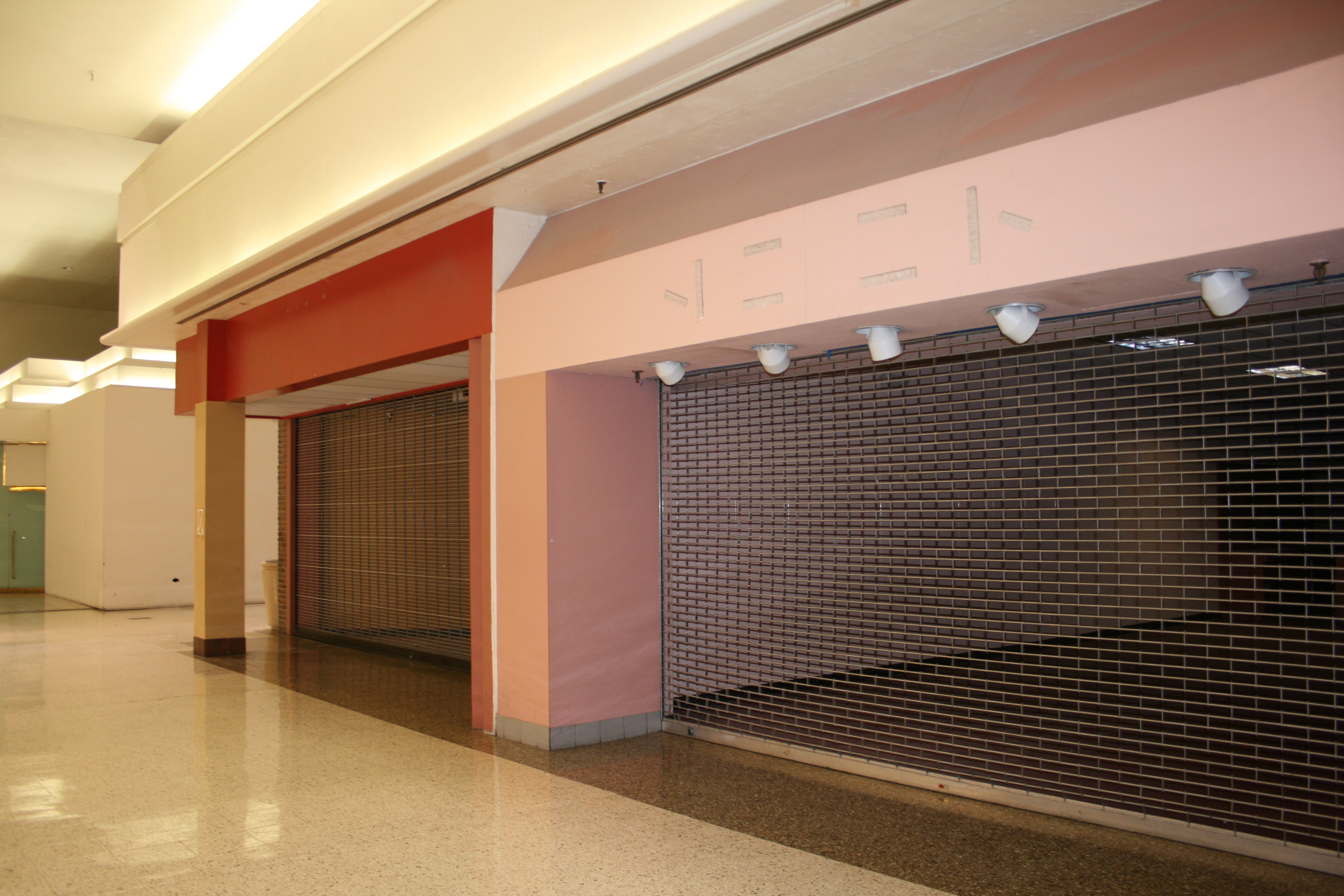 Two vacant storefronts in an empty wing of the El Con mall in Tucson. Red one Gap (later art college). Pink one Casual Corner (later Catherine's).